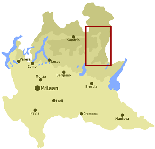 Position of the valley Val Camonica